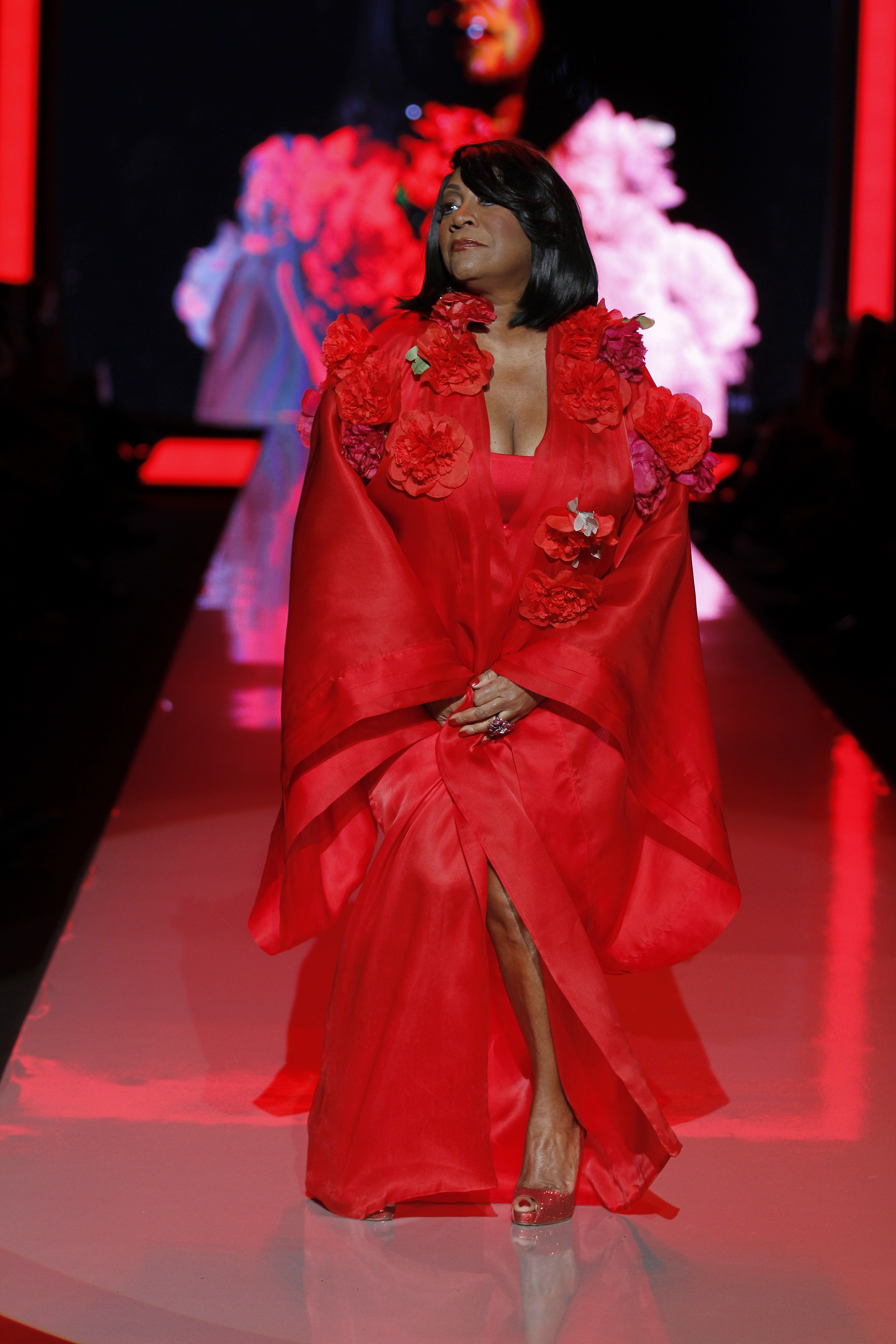 Patti LaBelle in Zang Toi at The Heart Truth’s Red Dress Collection Fashion Show, 2011